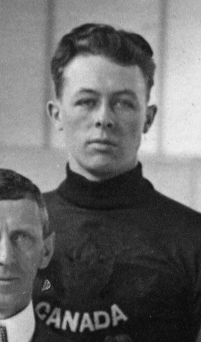 Ice hockey player Konrad "Konnie" Johannesson of the Winnipeg Falcons representing the Canadian national ice hockey team at the 1920 Summer Olympics in Antwerp, Belgium. The picture is a crop out of a larger team photo taken inside the ice rink Palais de Glace d'Anvers. The ice hockey tournament at the 1920 summer Olympics took place between April 23 and April 29. The canadian team won gold medals at the games.